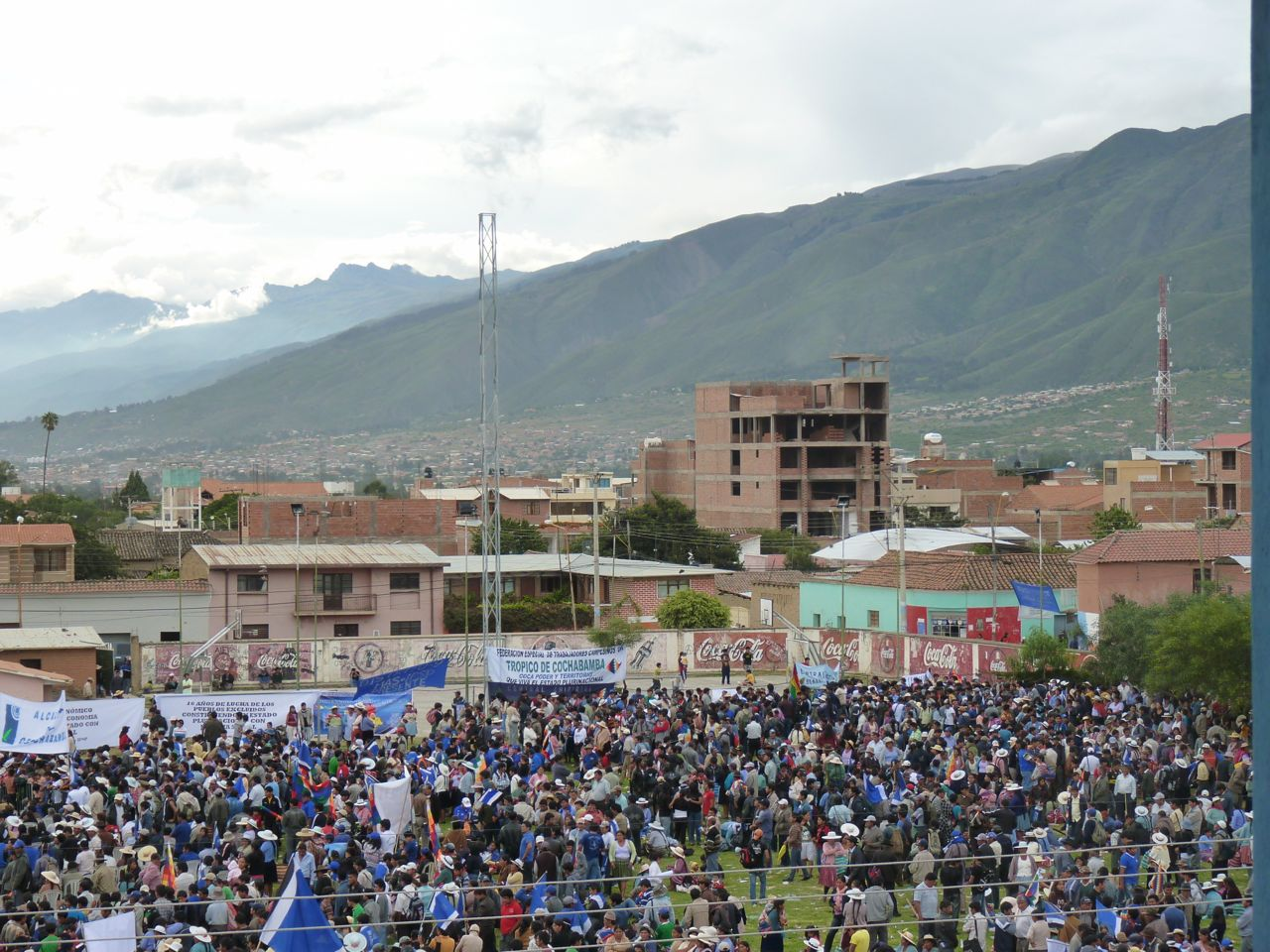 Gathering for 16th anniversary of the Movement Towards Socialism party in front of streetscape and landscape of Sacaba, Bolivia.